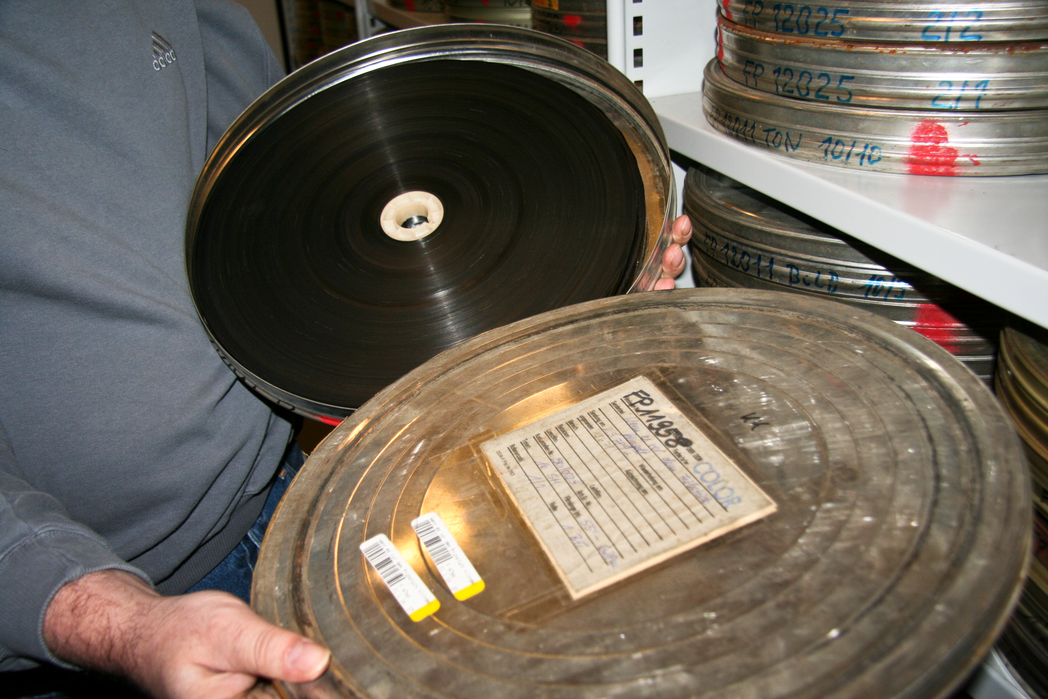 German Broadcasting Archive in Potsdam near Berlin. An east German 16mm film from the 1980ies